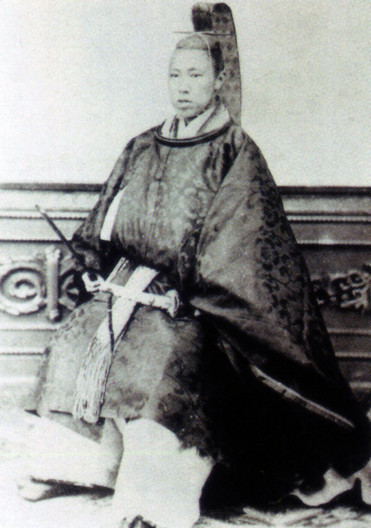 portrait of Ikeda Yoshinori(the 12th(the last) feudal lord of Tottori clan)